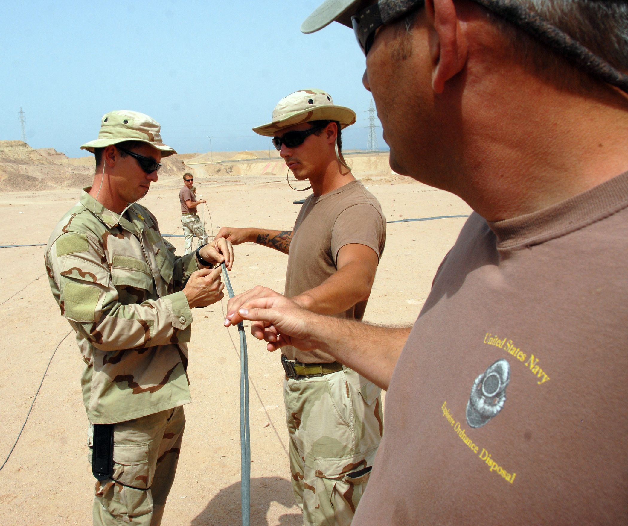 MIDDLE EAST (July 1, 2009) Navy explosive ordnance disposal technicians double strand detonation cord before making an overpressure charge during a live demolition demonstration during exercise Infinite Response '09. Infinite Response is an exercise to improve interoperability and tactical proficiency in underwater mine countermeasures, combat marksmanship, anti-terrorism force protection diving, counter improvised explosive device tactics, tactical combat casualty care and dive medicine that strengthen overall military relations. (U.S. Navy photo by Mass Communication Specialist 1st Class Joseph W. Pfaff/Released)